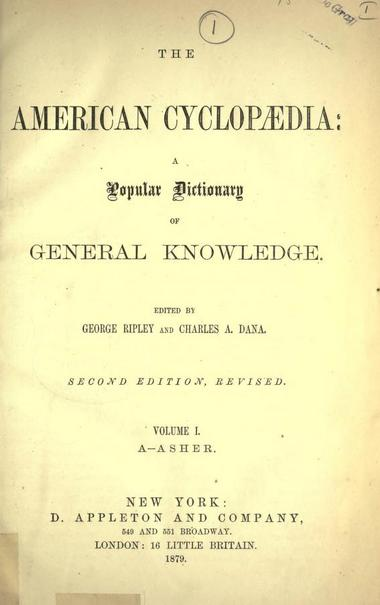 Frontispiece of the American Cyclopedia